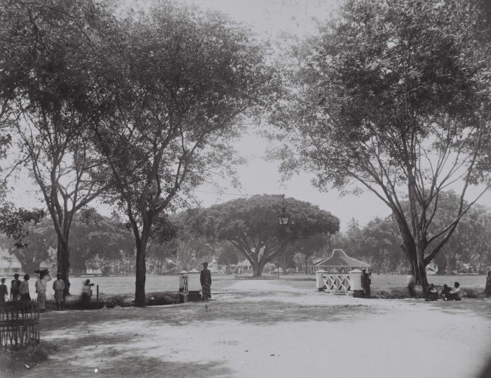 The grand square (aloon-aloon) in Blitar.